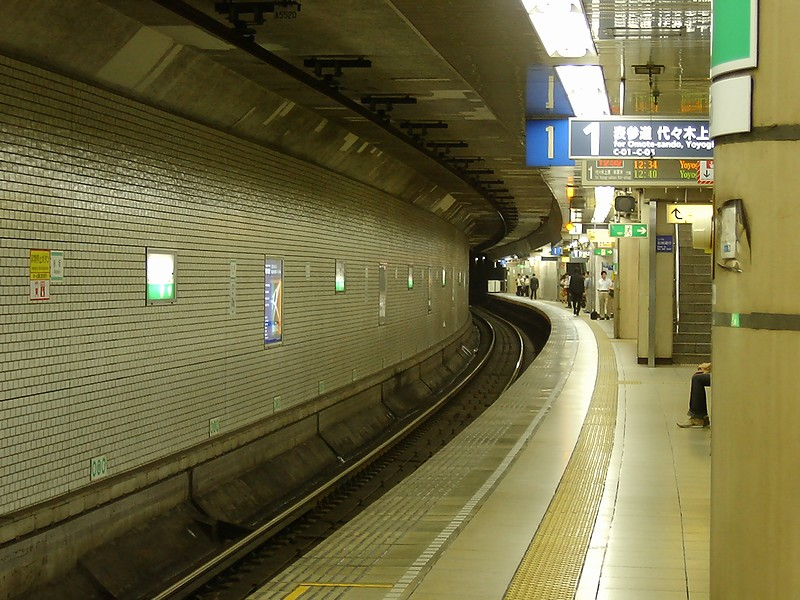 Platform 1 of Akasaka Station on the Tobu Metro Chiyoda Line in Tokyo